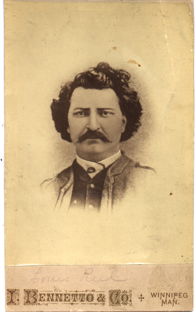 Louis Riel, carte de visite from 1884. The University of Manitoba states that engraver Octave-Henri Julien (1852-1908) was believed to have used this carte de visite for an engraving published in The Canadian Illustrated News.